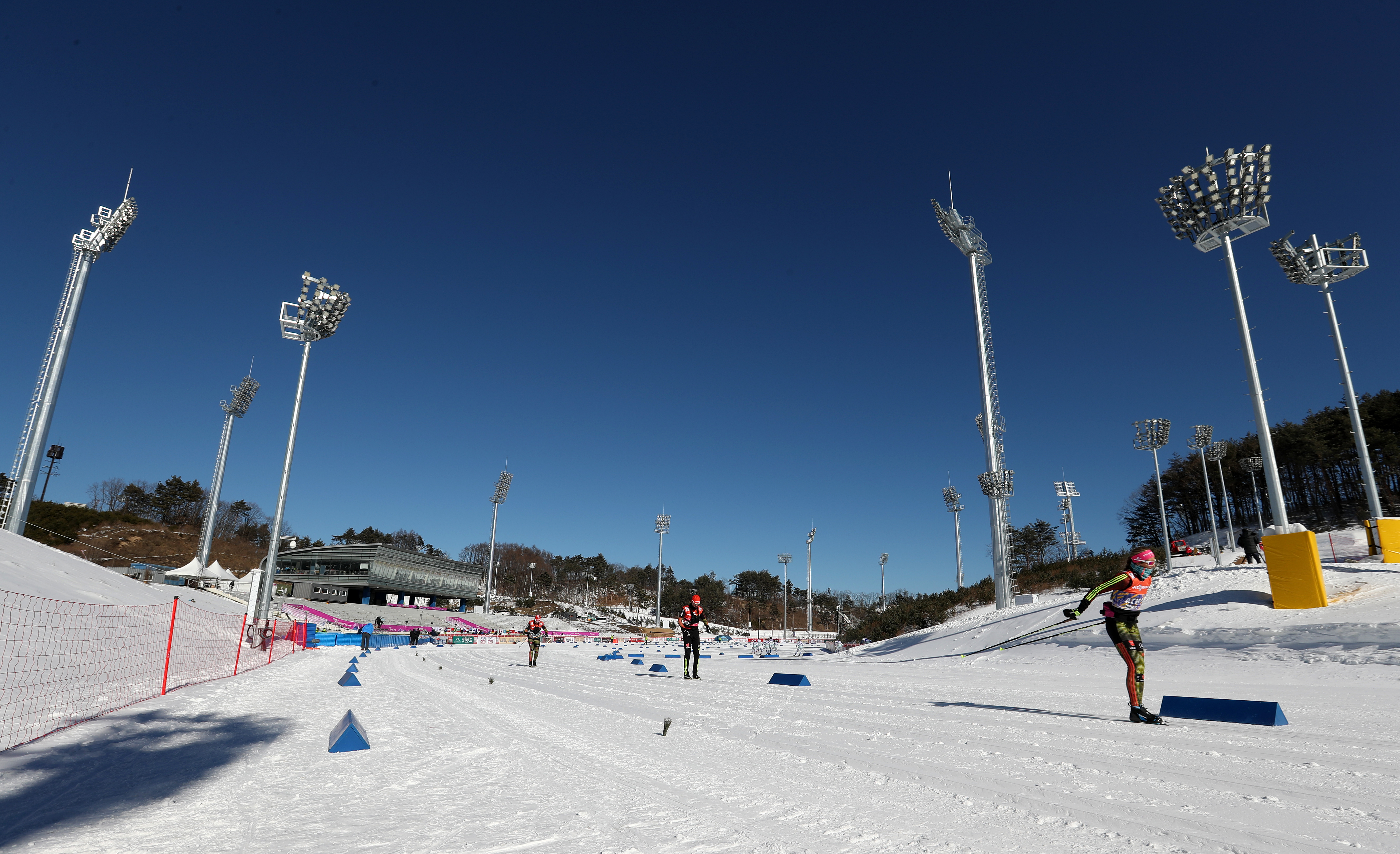 PyeongChang Alpensia February 2, 2017 Alpensia, Pyeongchang-gun, Gangwon-do Ministry of Culture, Sports and Tourism Korean Culture and Information Service ( Official Photographer : Jeon Han This official Republic of Korea photograph is being made available only for publication by news organizations and/or for personal printing by the subject(s) of the photograph. The photograph may not be manipulated in any way. Also, it may not be used in any type of commercial, advertisement, product or promotion that in any way suggests approval or endorsement from the government of the Republic of Korea. 알펜시아 2017-02-02 평창군 문화체육관광부 해외문화홍보원 코리아넷 전한